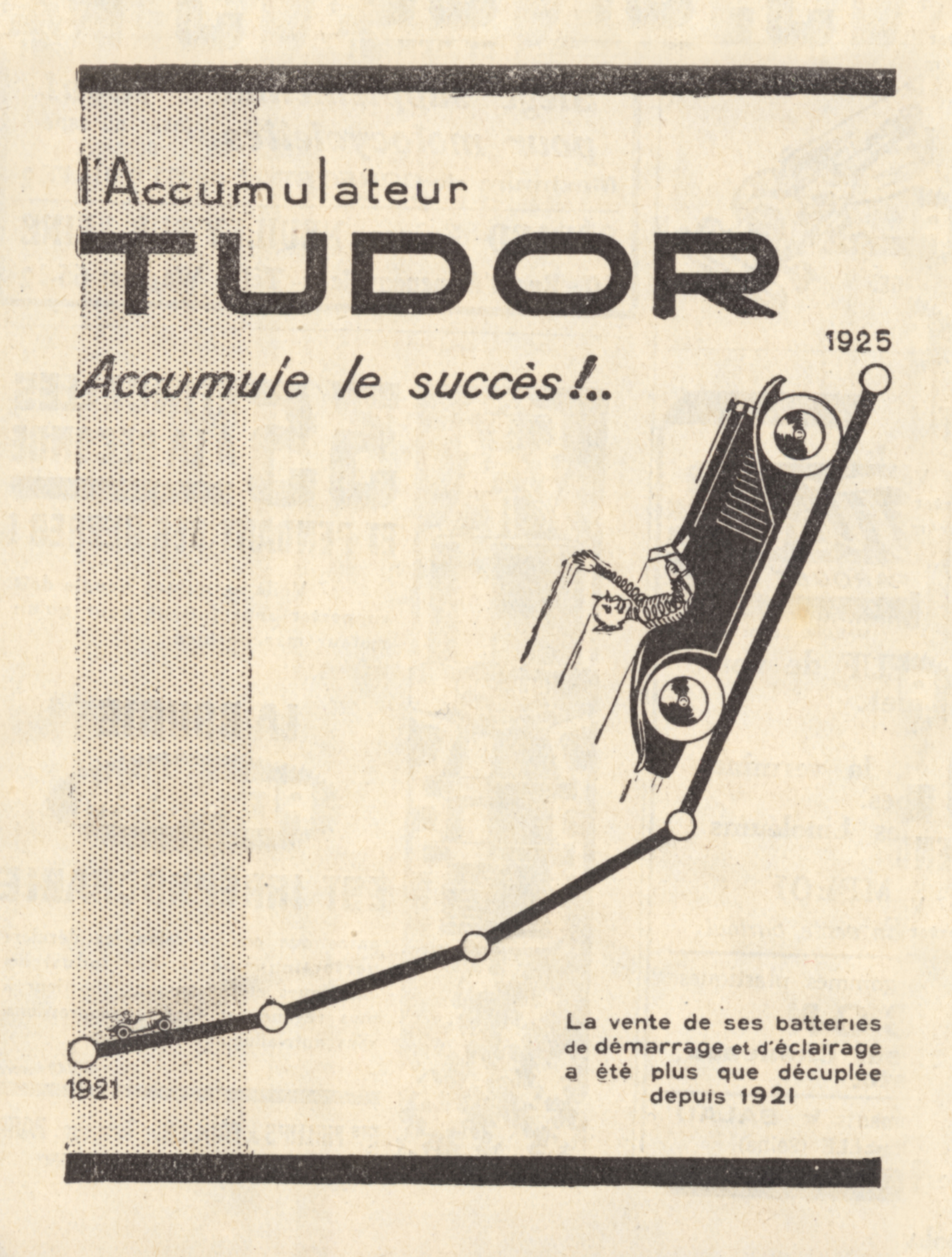 Tudor Advertisement 1925